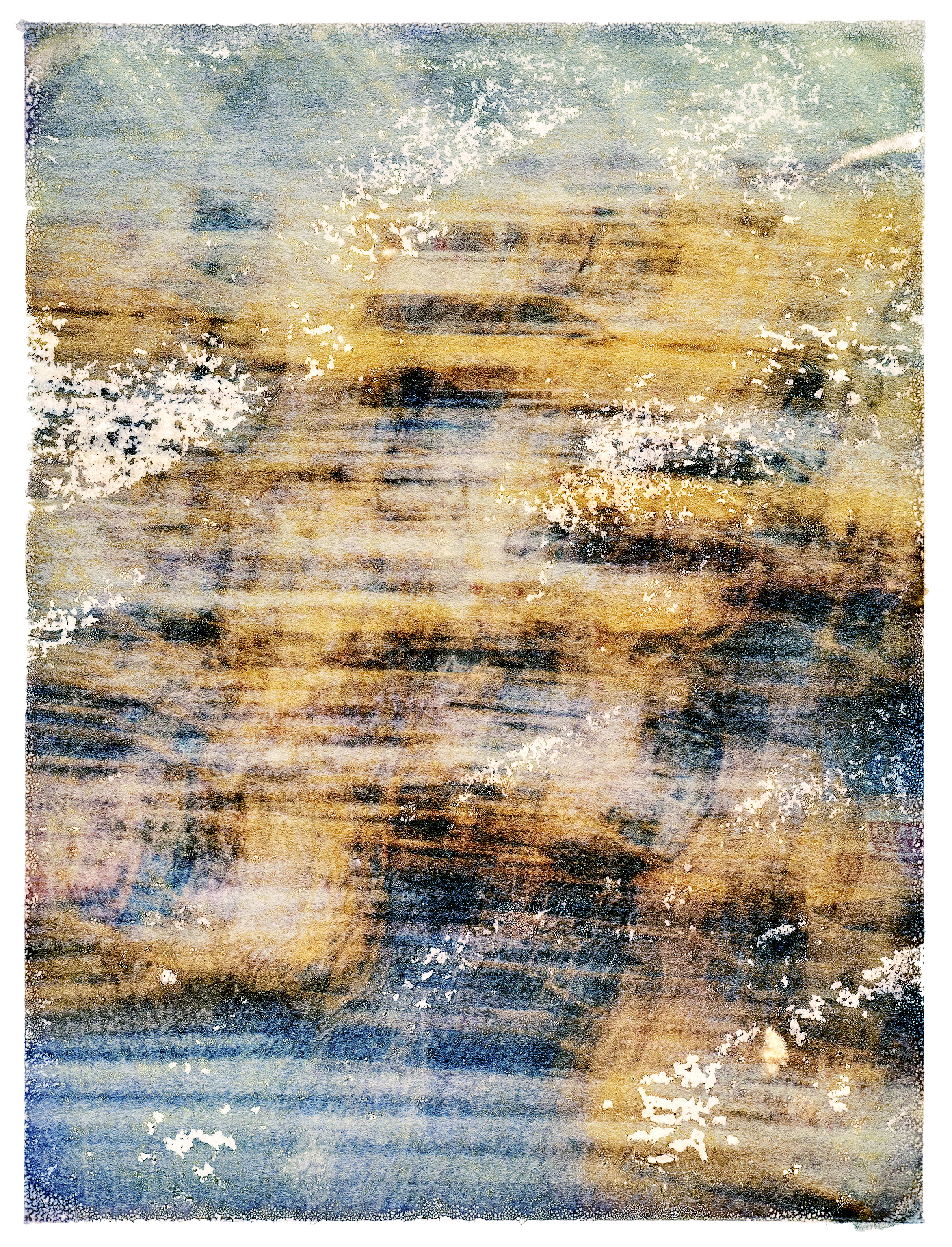 Photography of taxis in New York from my Transfer serie